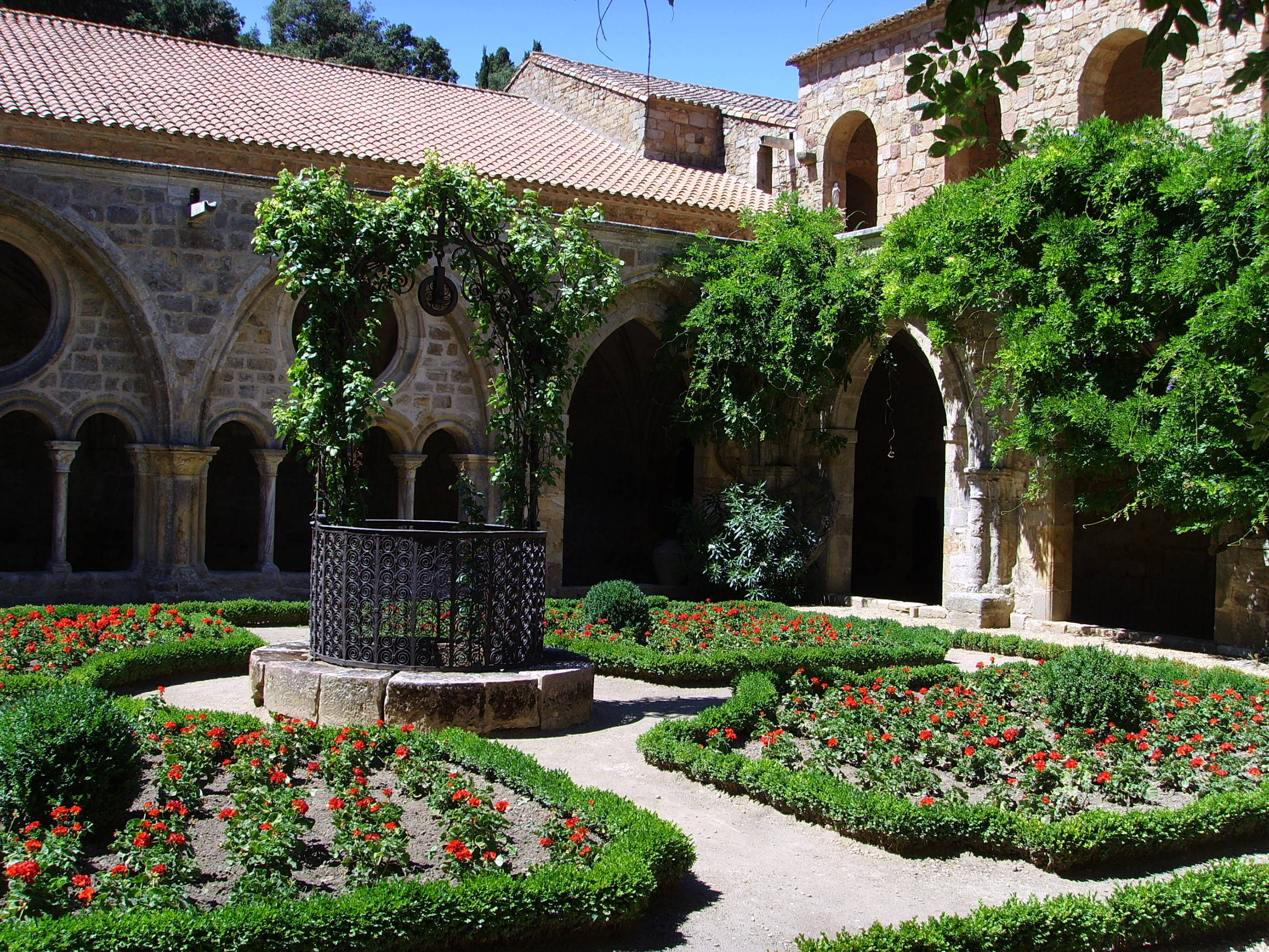 Abbaye Sainte-Marie de Fontfroide (France, southwest of Narbonne), cloister and fountain's courtyard summer 2006 author: Gerbil